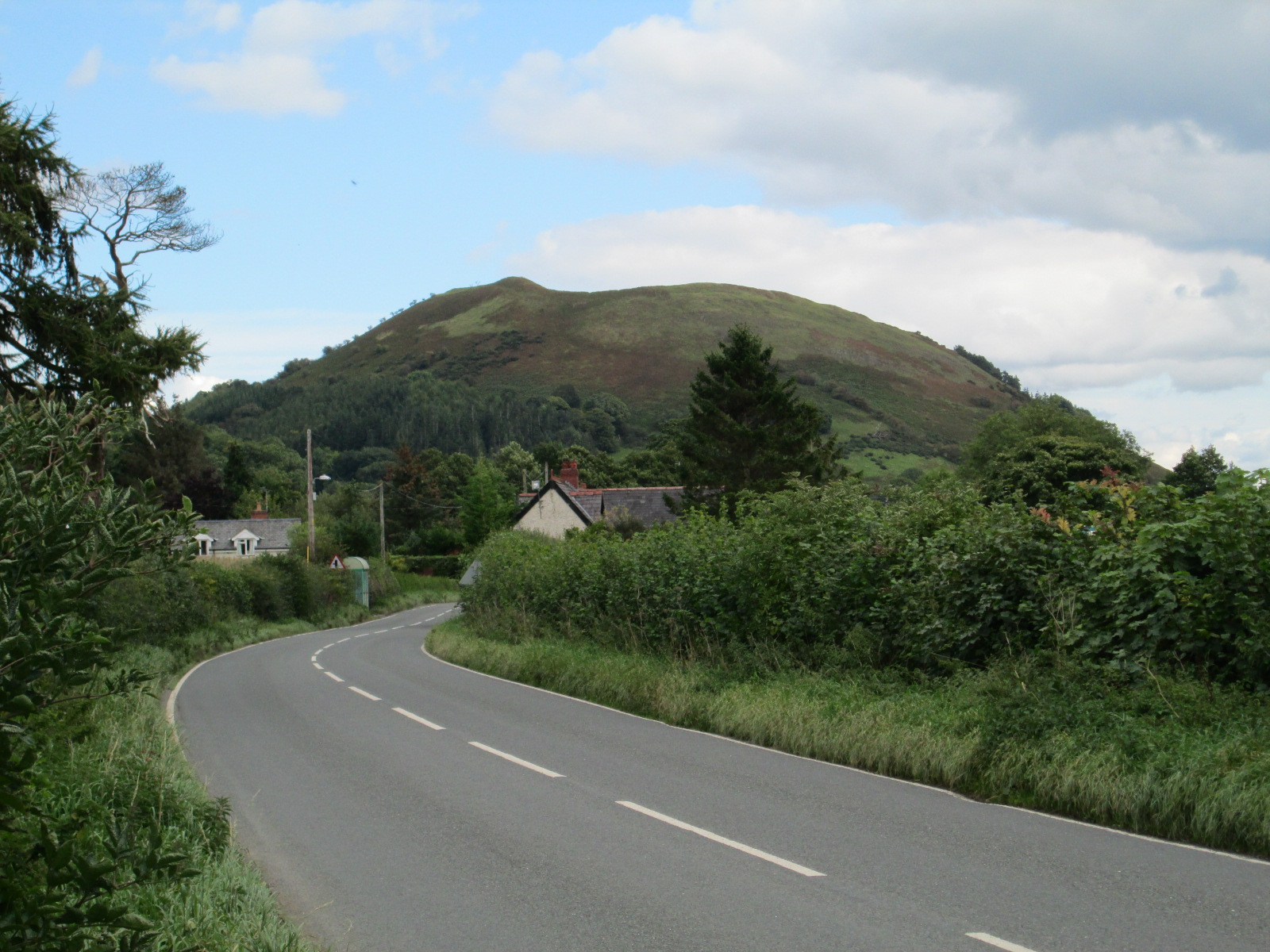 Llwyn Bryn-Dinas from the west, seen from the B4396 road.